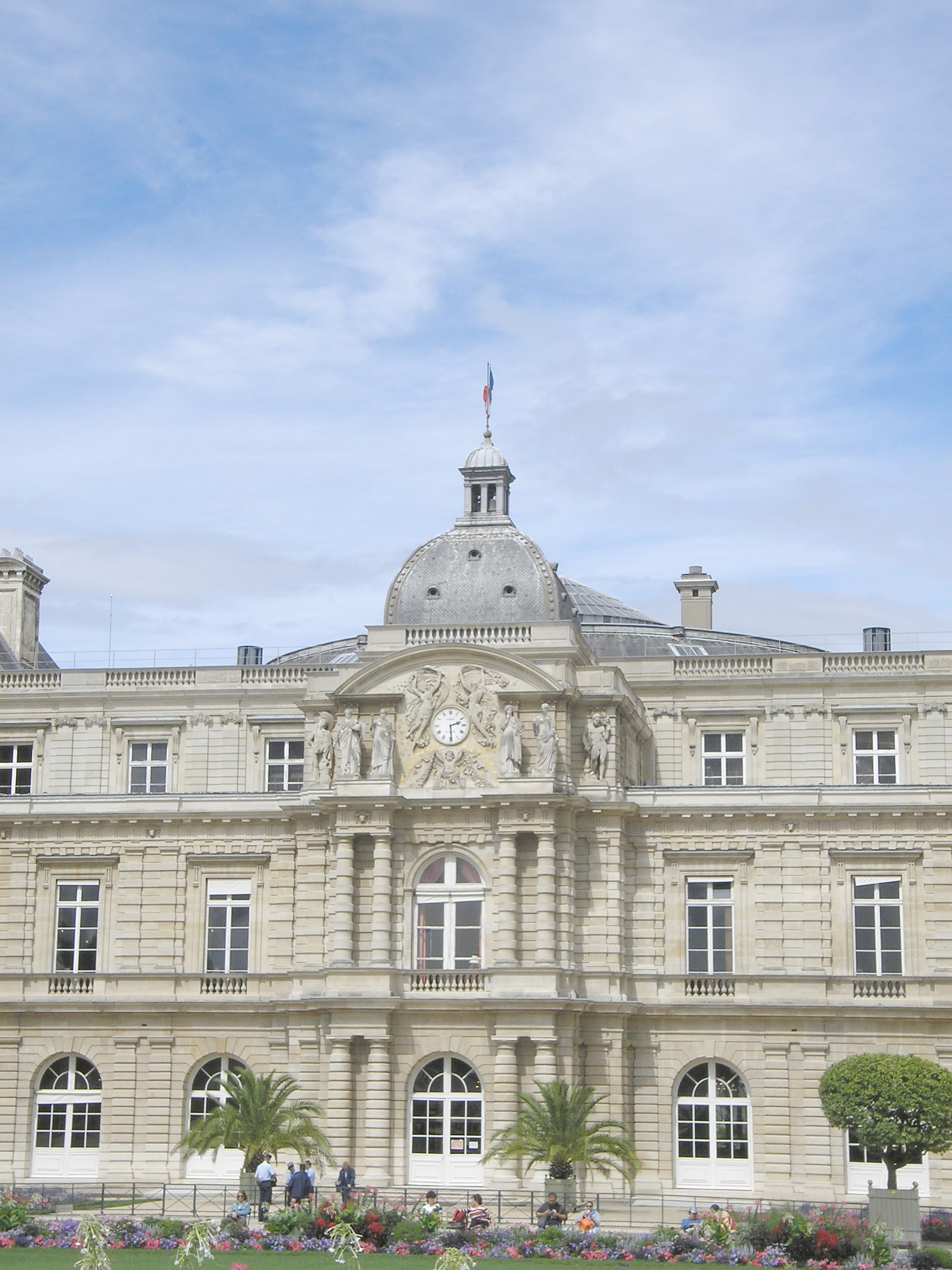 Image of the Palais Luxembourg in Paris.